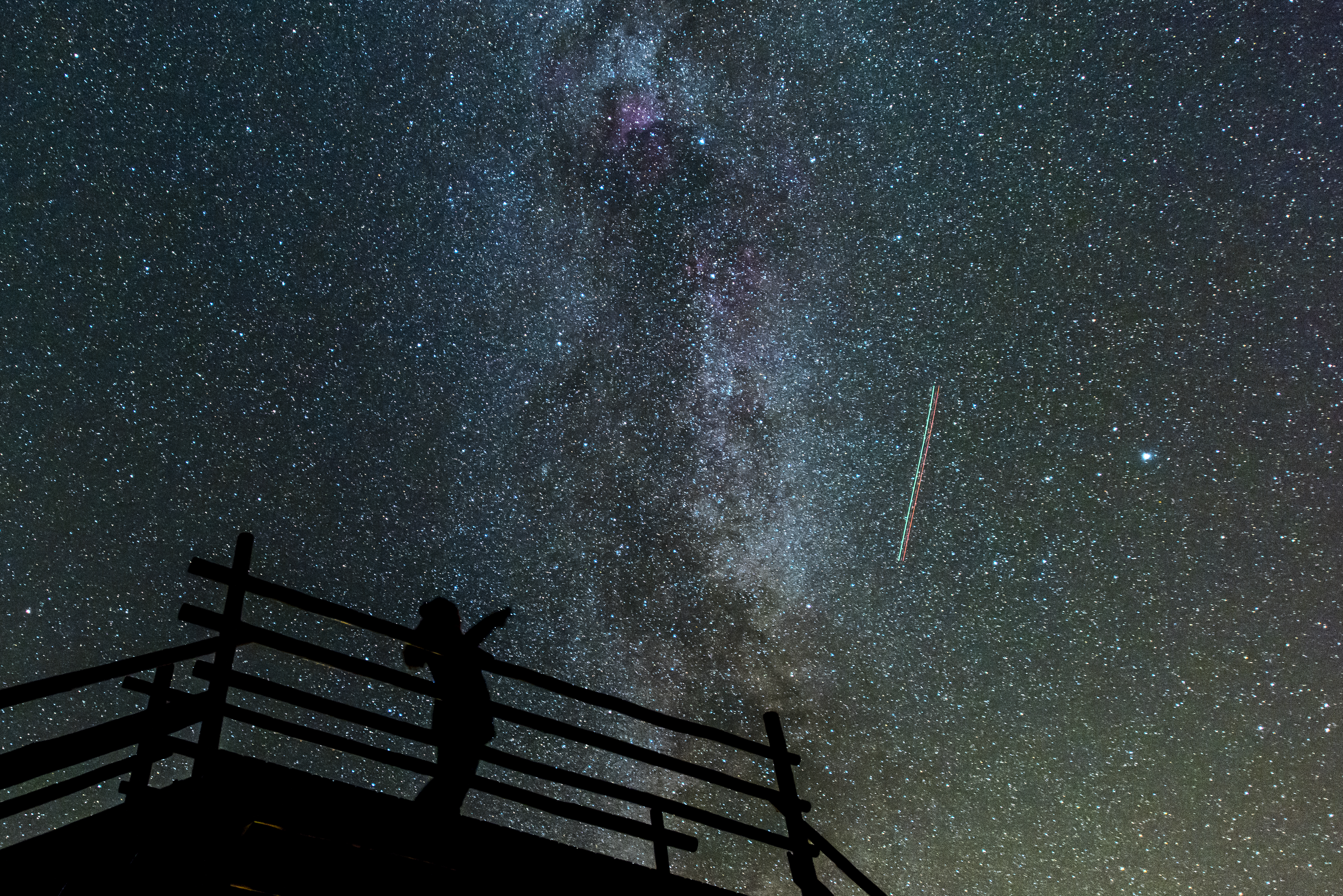 Exploring the airplane traffic on the viewing platform of a big swing in Rõuge Nightingale Valley